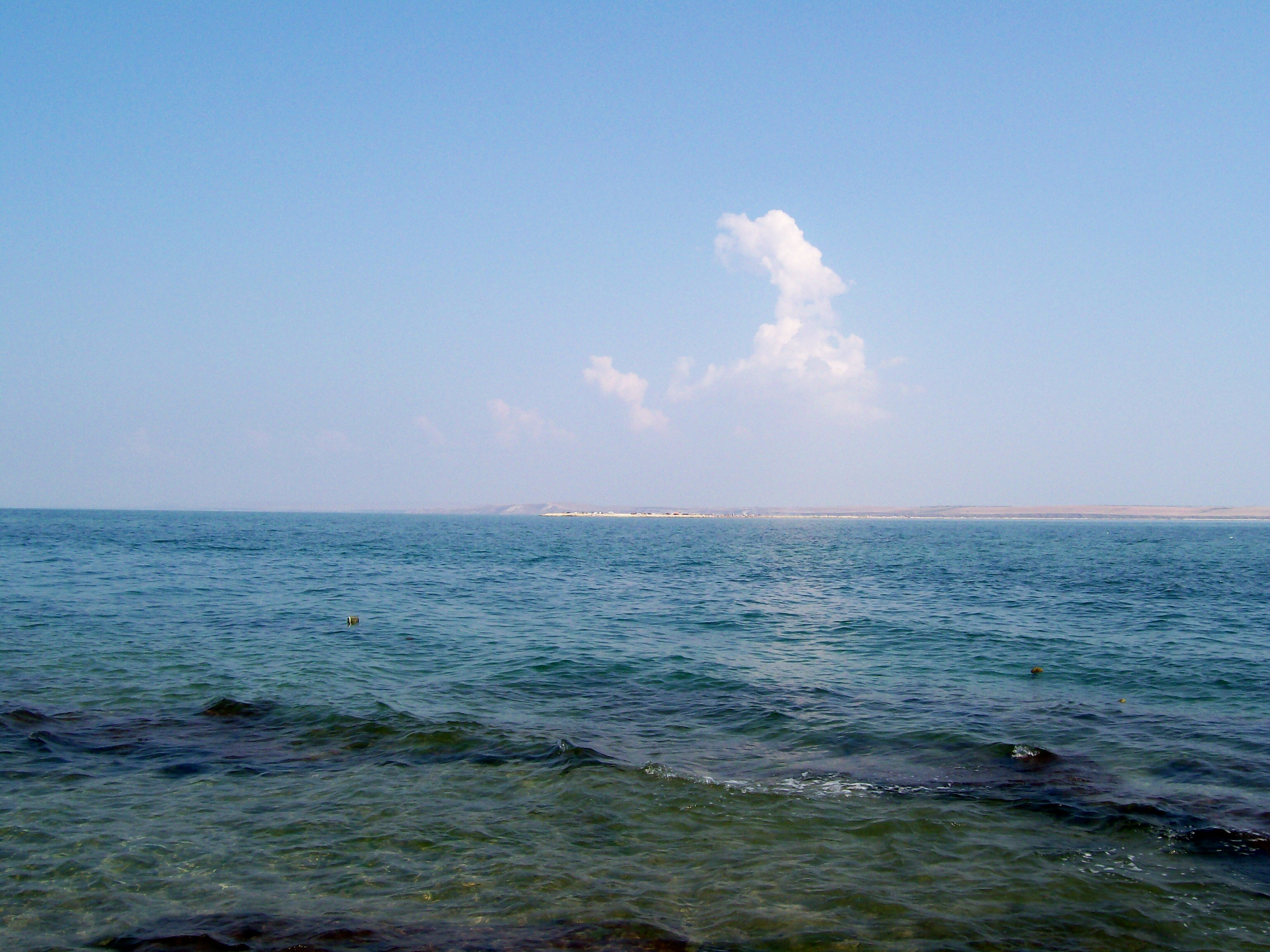 Taman Peninsula, view from Tuzla Island, august 2007